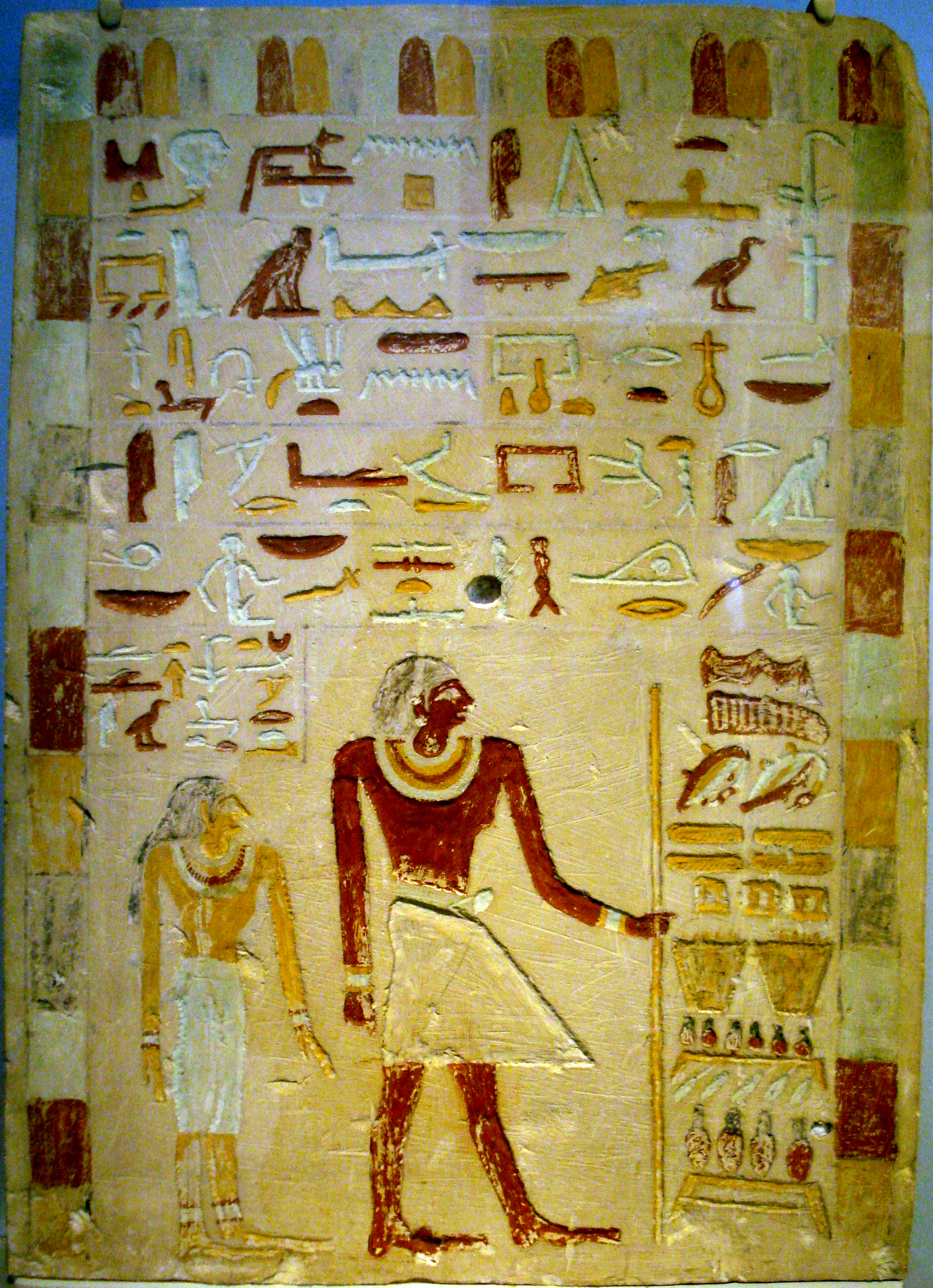 Funerary stele of Maaty and Dedari. Limestone. First Intermediate Period, c. Dynasty VII-Dynasty XI.